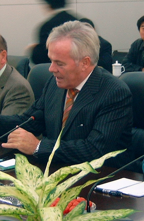 Jaak Gabriëls, Minister of State from Belgium, Mayor of the town of Bree